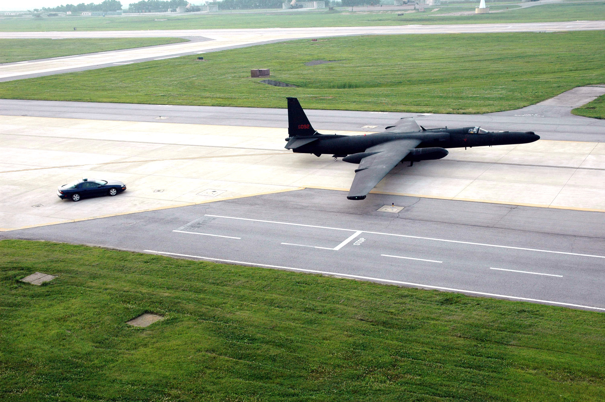 U-2s boast new, improved cockpit The improved U-2S Dragon Lady, Block 20, aircraft taxis to the runway at Osan Air Base, South Korea, followed by a high-performance chase car. Osan AB was the last forward operating location to receive the new Block 20 aircraft.